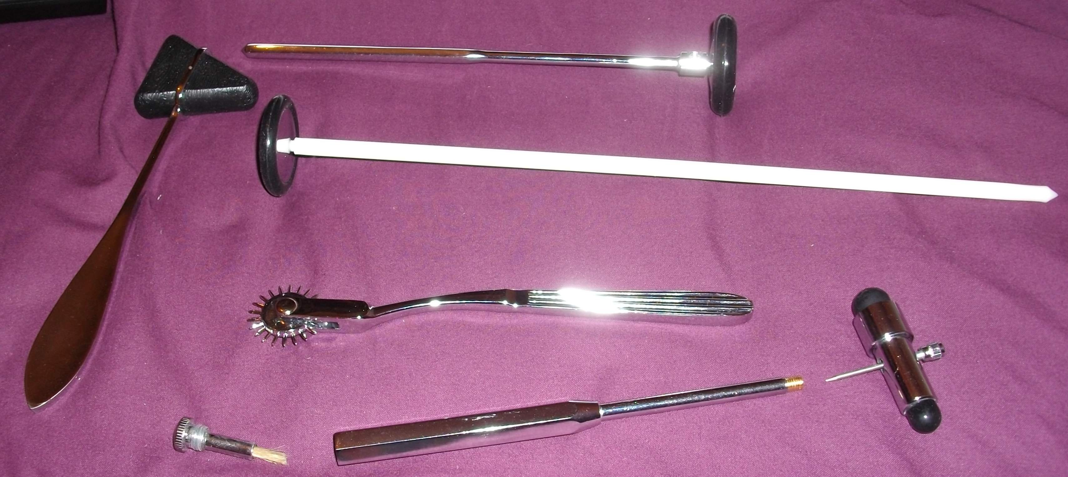 Various reflex hammers and tools for neurological examinations. On the left is the taylor/ tomohawk tendon hammer. Along the top are queens square/ babinski hammers, one metal one white plastic handled. Below them is a Wartenberg wheel. The last one is a Trömner hammer, it's been dissembled to show a brush concealed in the handle and the pin prick tester hidden in the top.